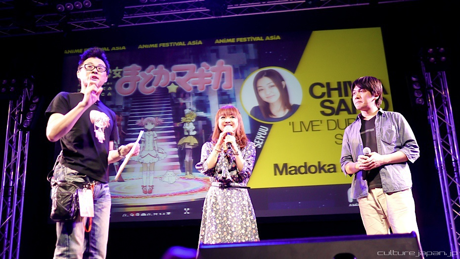 Danny Choo (left, site owner of culturejapan.jp) and Chiwa Saito (middle) on the stage event of Puella Magi Madoka Magica at Anime Festival Asia 2011. View more at